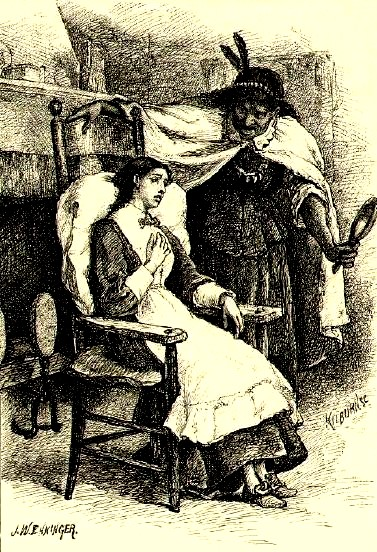 "Giles Corey of the Salem Farms" (1868), in The Complete Poetical Works of Henry Wadsworth Longfellow, Boston, Houghton, 1902. A fragment.